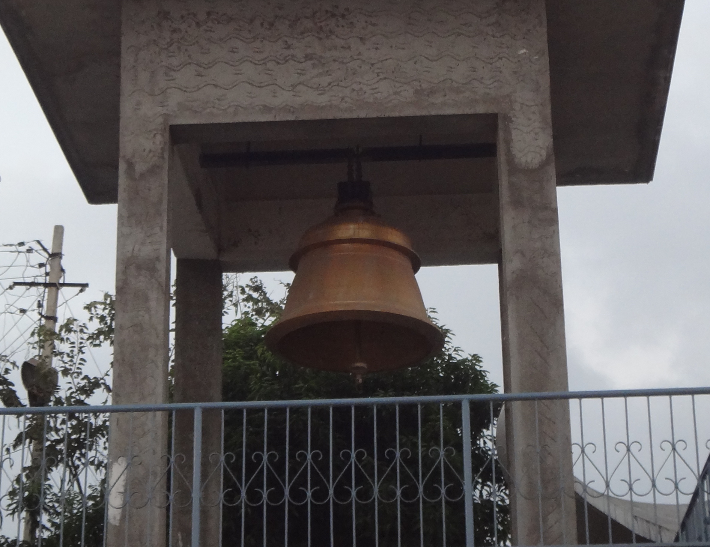 1200KG bell in Omkar Hills